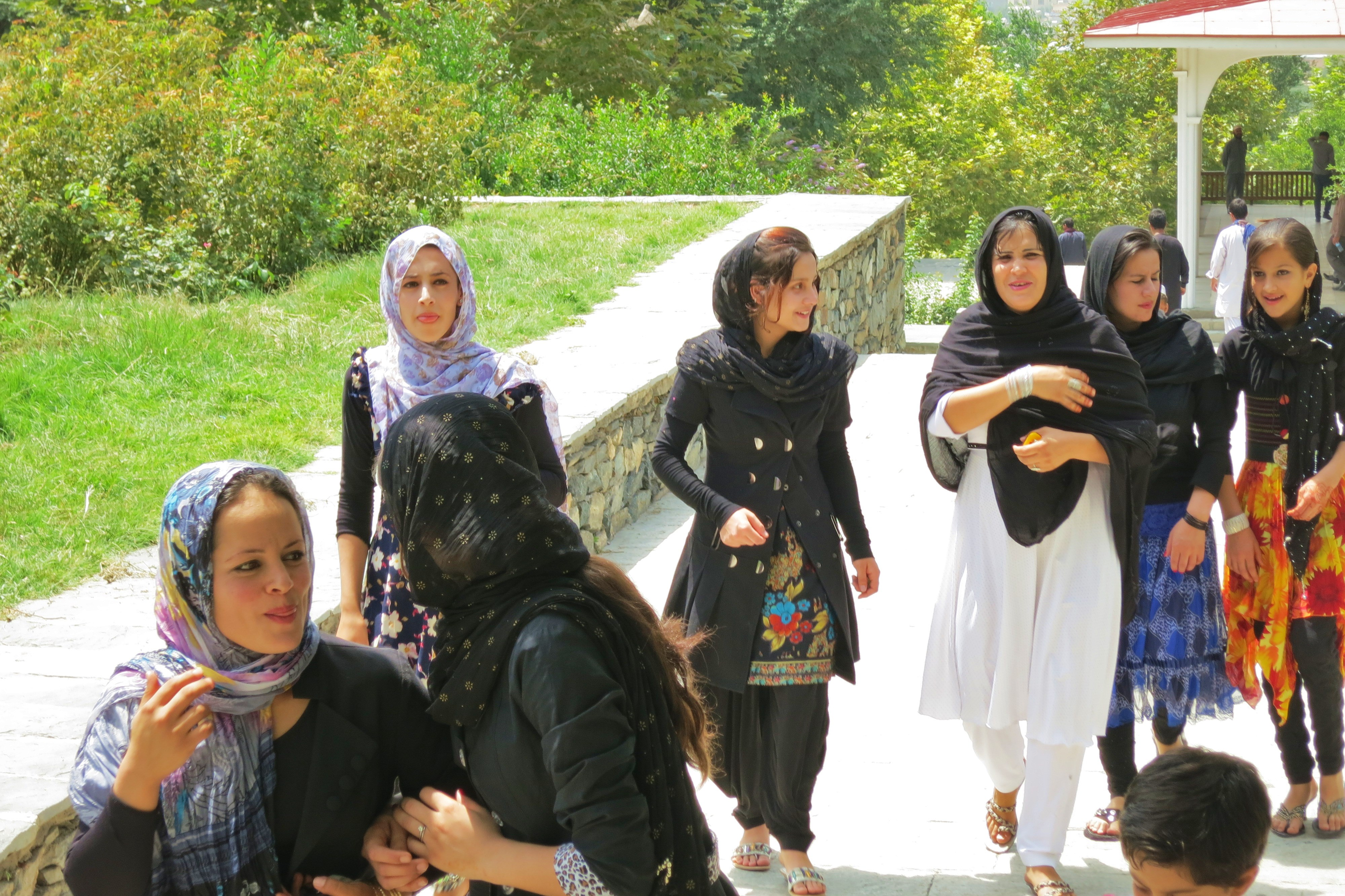 Afghan women in Bagh-e-Babur, Kabul, Afghanistan